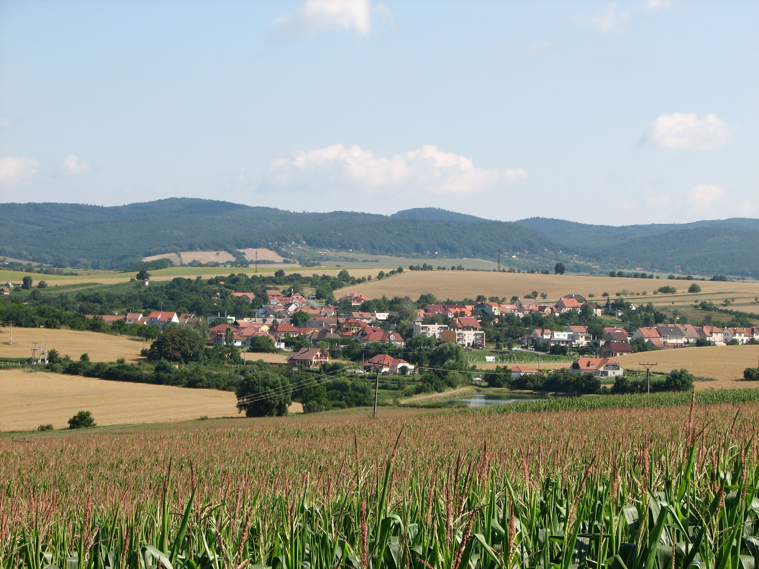 View of Kostelec u Kyjova from a nearby hill